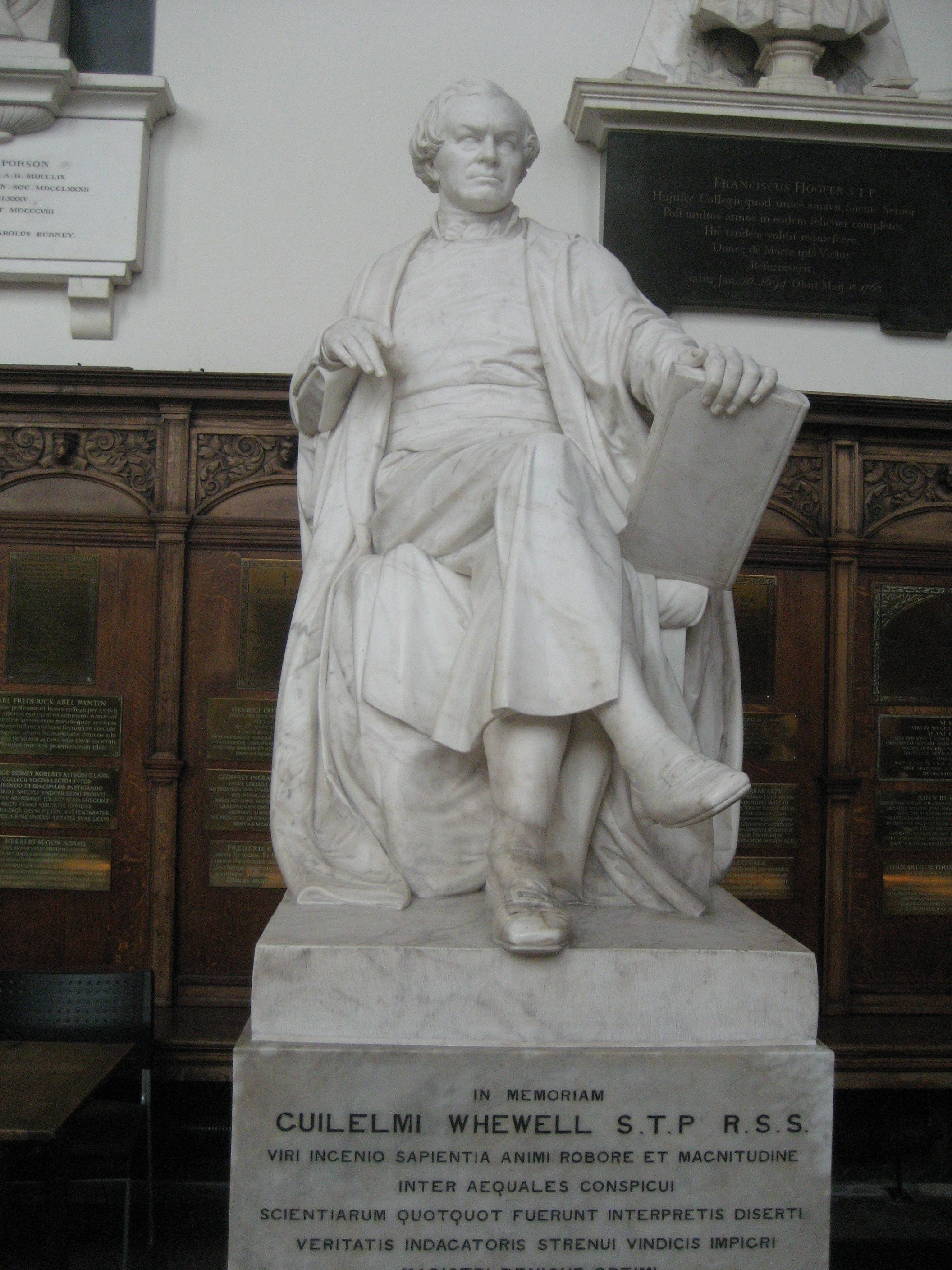 Statue of William Whewell at Trinity College, Cambridge, England (UK). Sculptor: Thomas Woolner